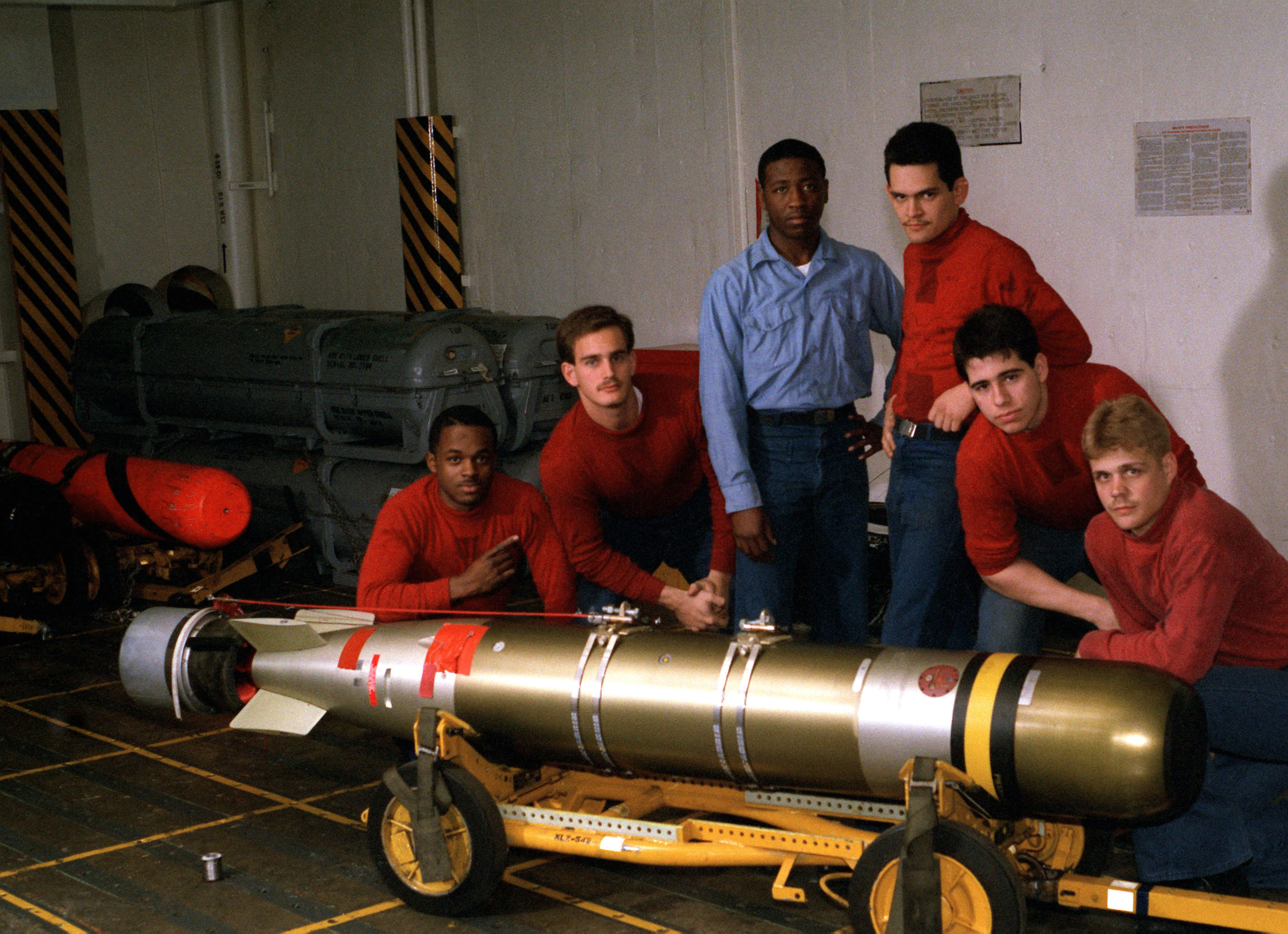 U.S. Navy ordnancemen pose with a Mark 46 torpedo on an Aero 21A weapons skid aboard the nuclear-powered aircraft carrier USS Dwight D. Eisenhower (CVN-69) on 1 April 1988.